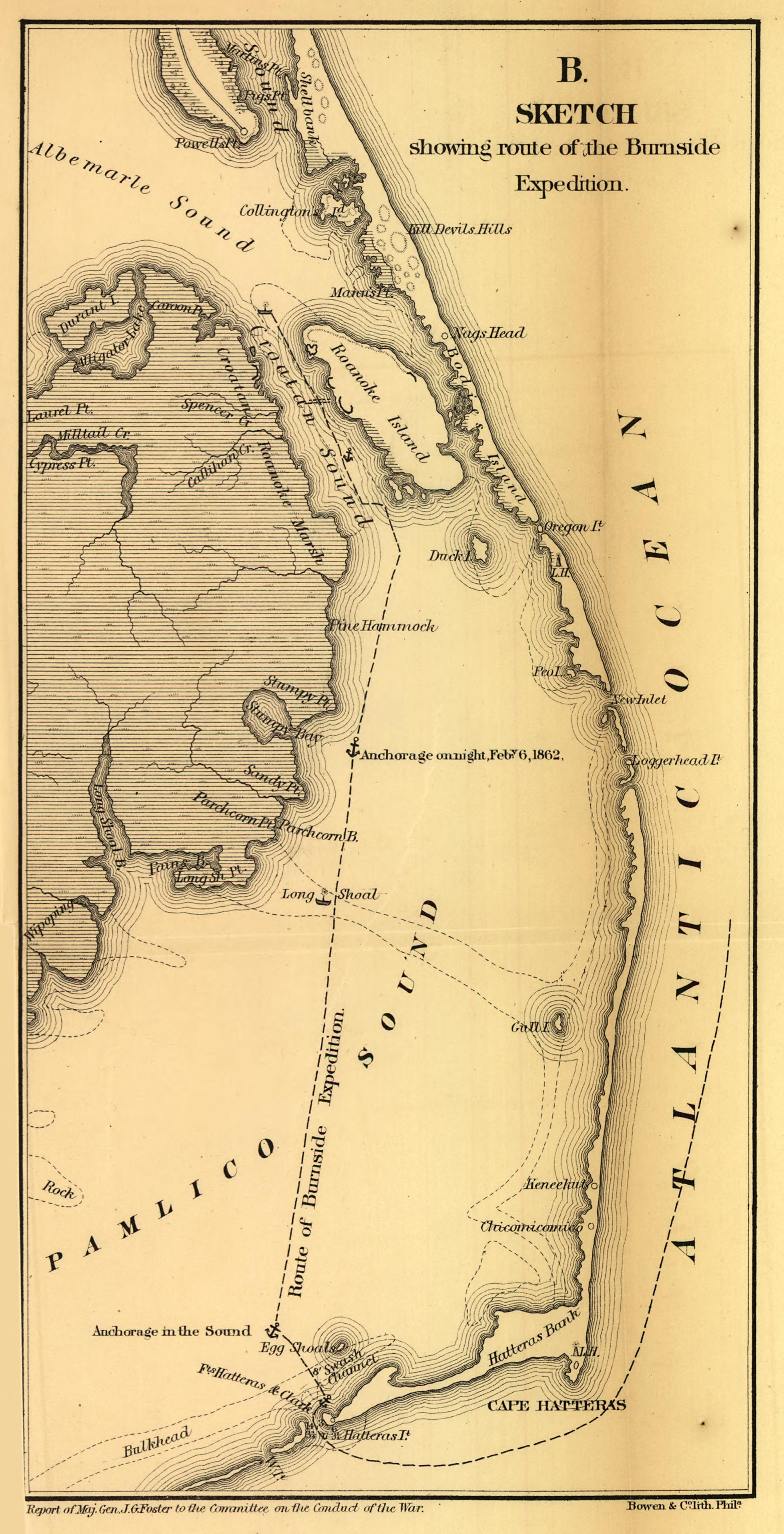 Sketch of the route taken by General Burnside's expedition to Roanoke Island, North Carolina, on February 6, 1862. Sketch by John G. Foster, printed by the U. S. Government Printing Office, Washington, 1866. Courtesy of the Library of Congress. Image courtesy of .